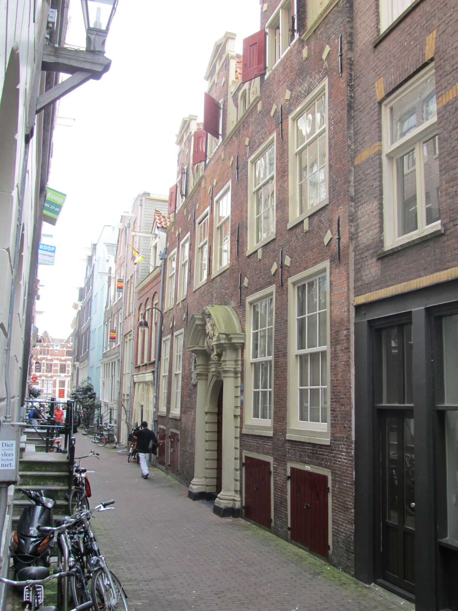 The Wijnkopersgildehuis at Koestraat 10-12 in Amsterdam, the guild house of the winebuyers' guild.It is one of the few remaining guild houses in Amsterdam.